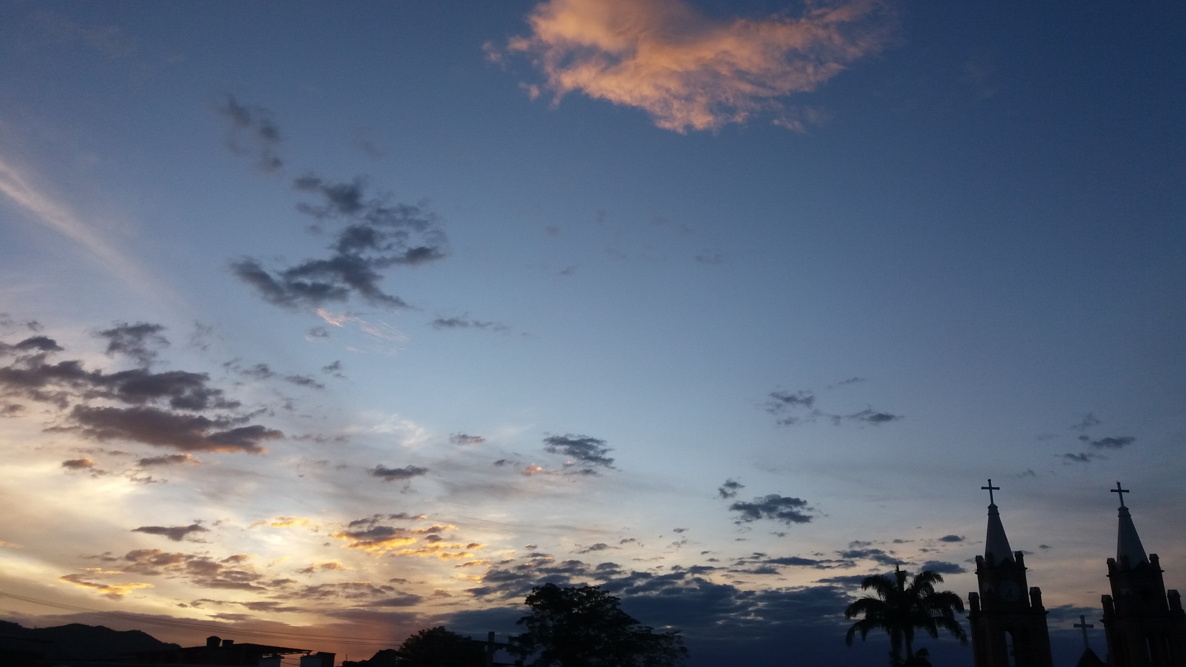 Atardecer del municipio